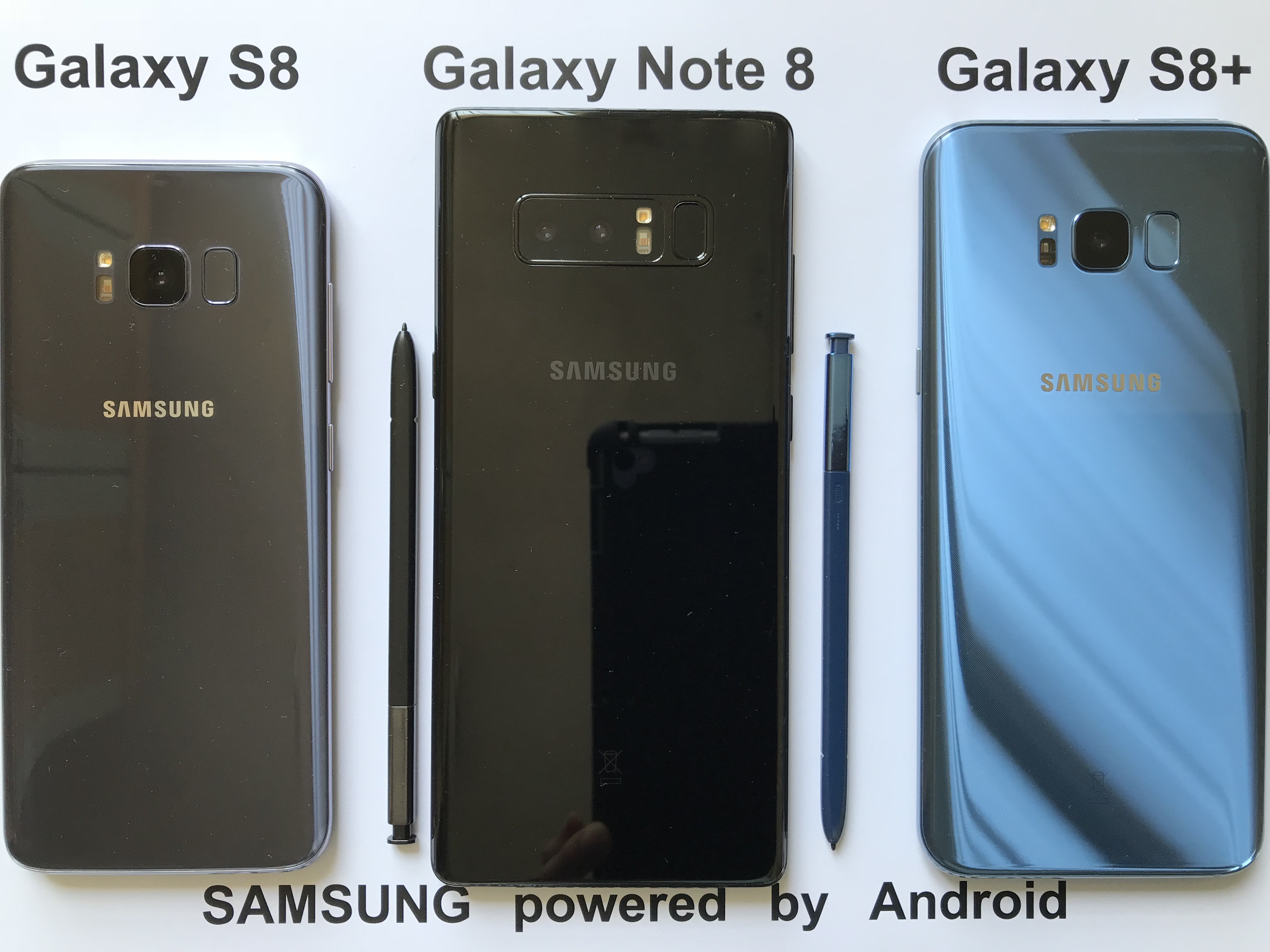 Samsung Galaxy S8, S8 +, Note 8